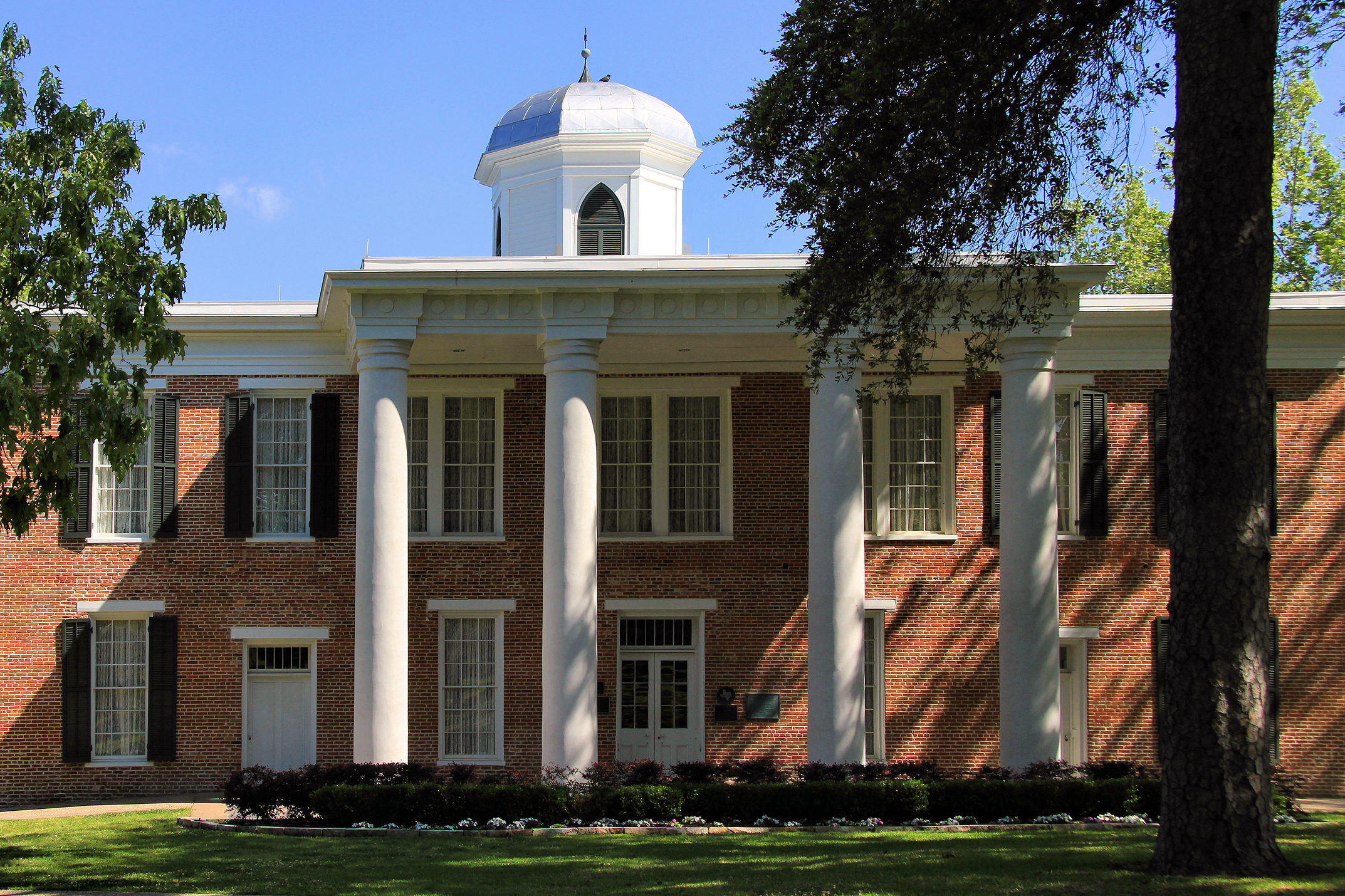 Austin Hall, also known as the Austin College Building, on the campus of Sam Houston State University in Huntsville, Texas, United States. The Presbyterian Church established Austin College in Huntsville in 1849 and erected this Greek Revival style building in 1851-52. The building was designated a Recorded Texas Historic Landmark in 1964 and listed on the National Register of Historic Places on January 2, 2013.